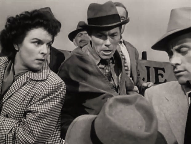 L. to R. : Mercedes McCambridge, Walter Burke & John Ireland in All the King's Men - trailer (cropped screenshot)